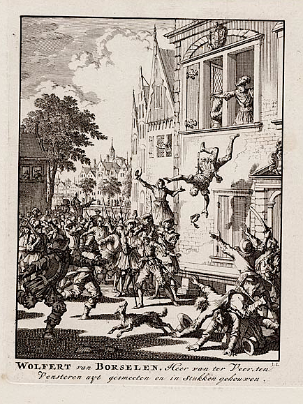 Wolfert van Borselen [Wolfert I van Borselen, lynched on 1 August 1299 in Delft], etching by Jan Luyken.